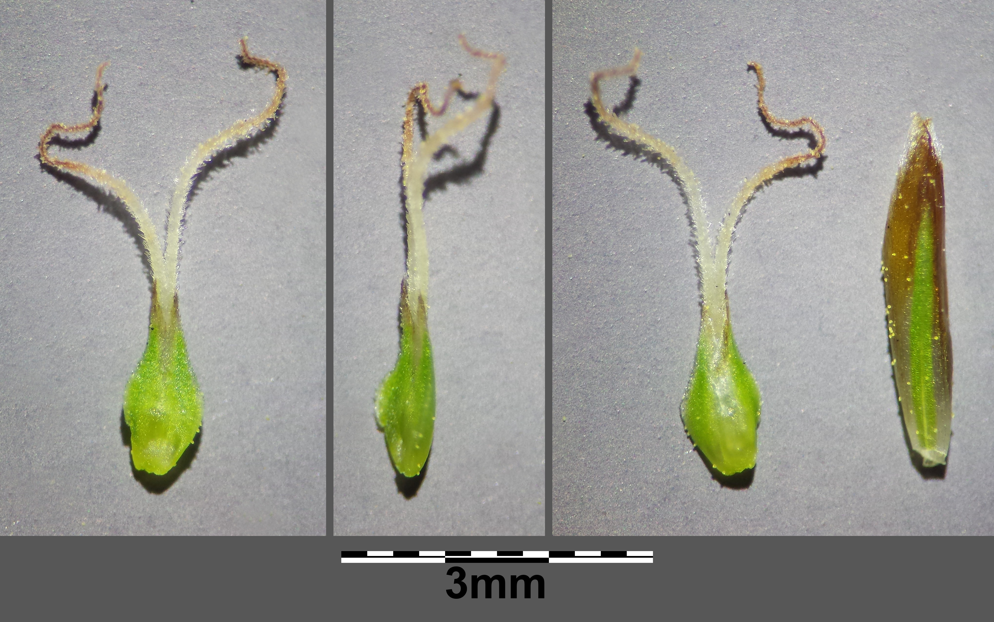 Utricle and glume Taxonym: Carex praecox ss Fischer et al. EfÖLS 2008 ISBN 978-3-85474-187-9 Location: Altenbergen to the North of Ladendorf, district Mistelbach, Lower Austria - ca. 290 m a.s.l. Habitat: slope